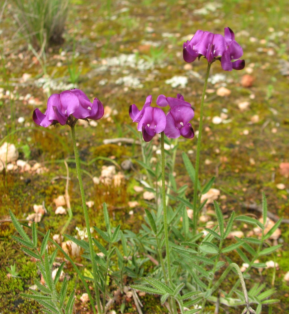 Swainsona behriana, Terrick Terrick National Park, Victoria, Australia